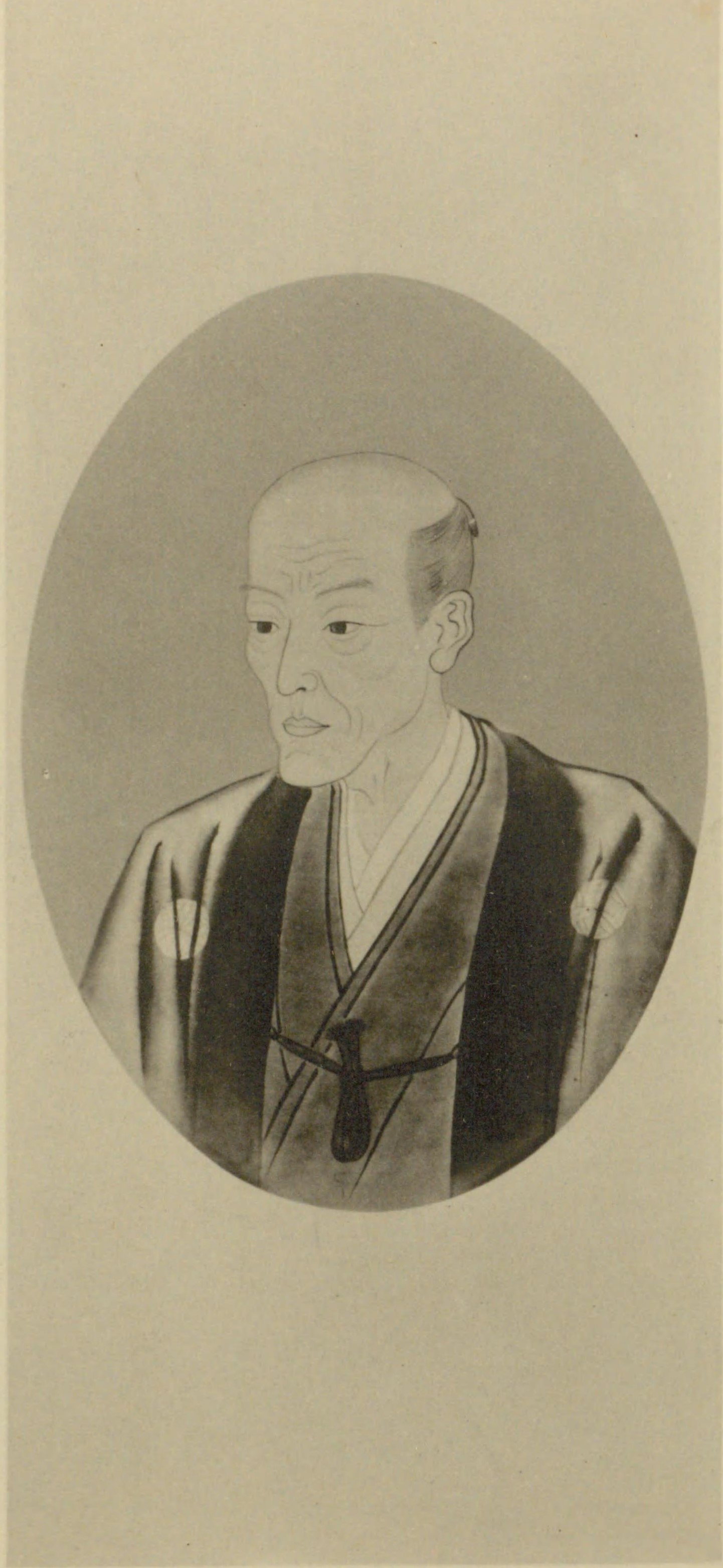 Portrait of Iwasaki Kan'en